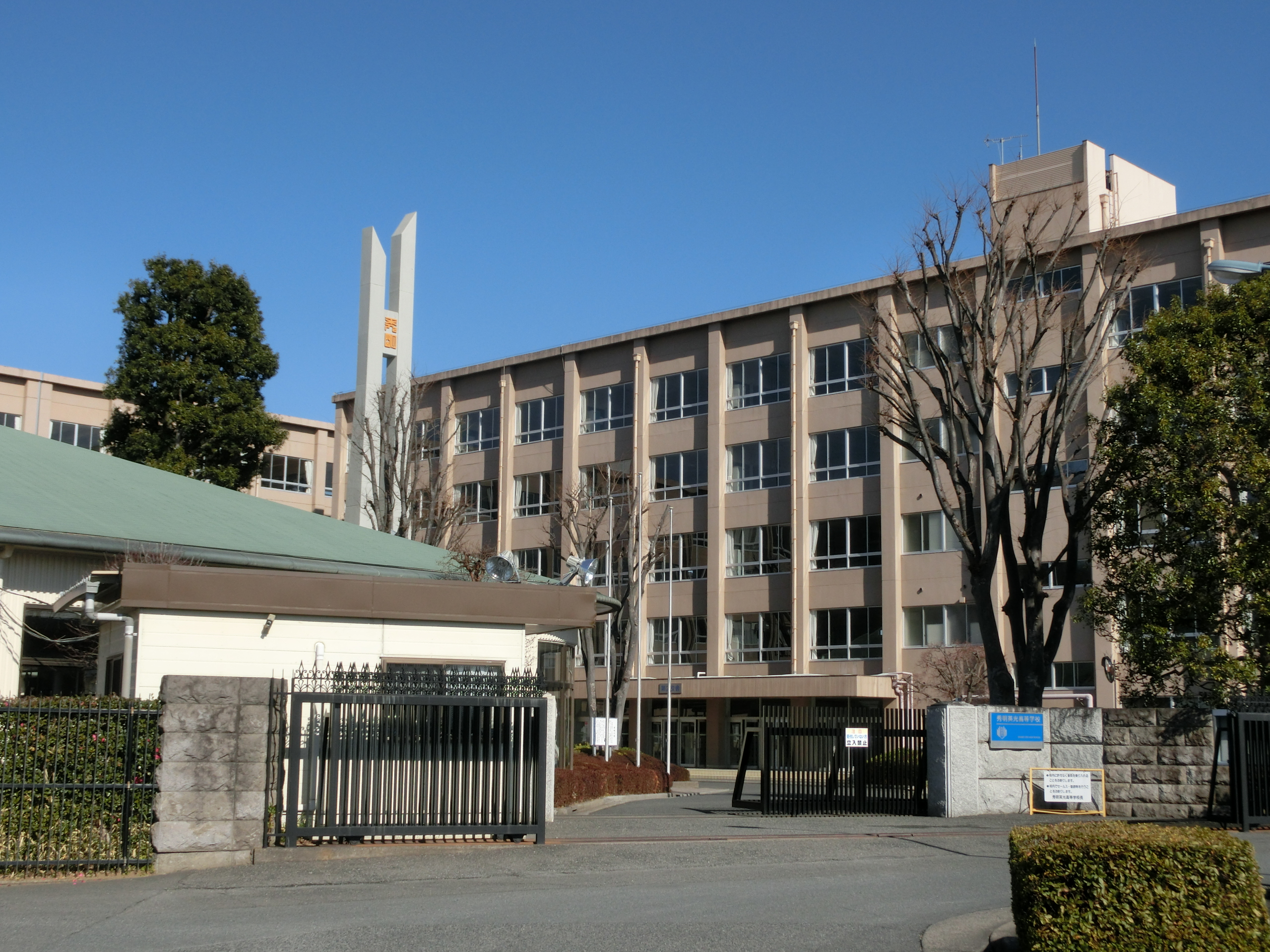 Shumei Eiko High School